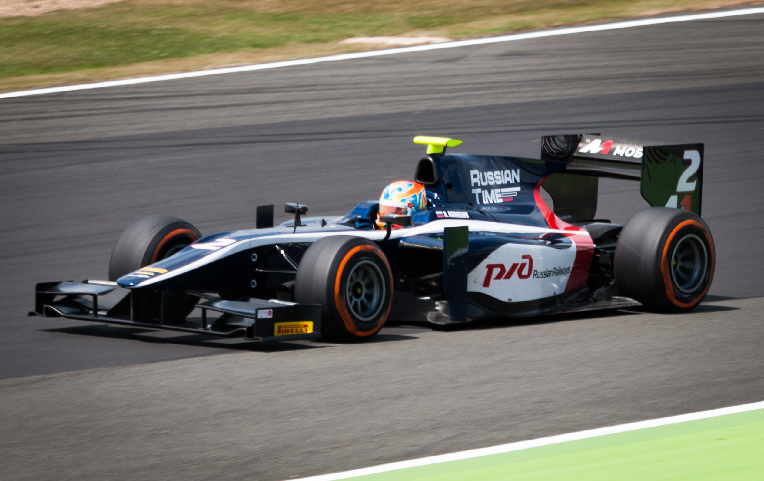 Artem Markelov driving for RT Russian Time at Silverstone. Round 5 of the 2014 GP2 Series Championship.